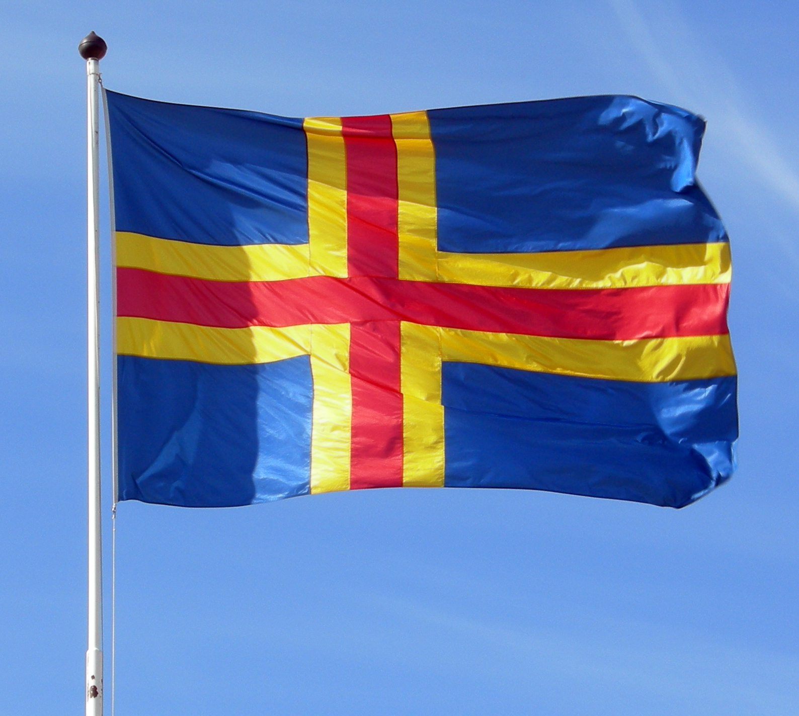 Åland flag at Mariehamn, Åland.